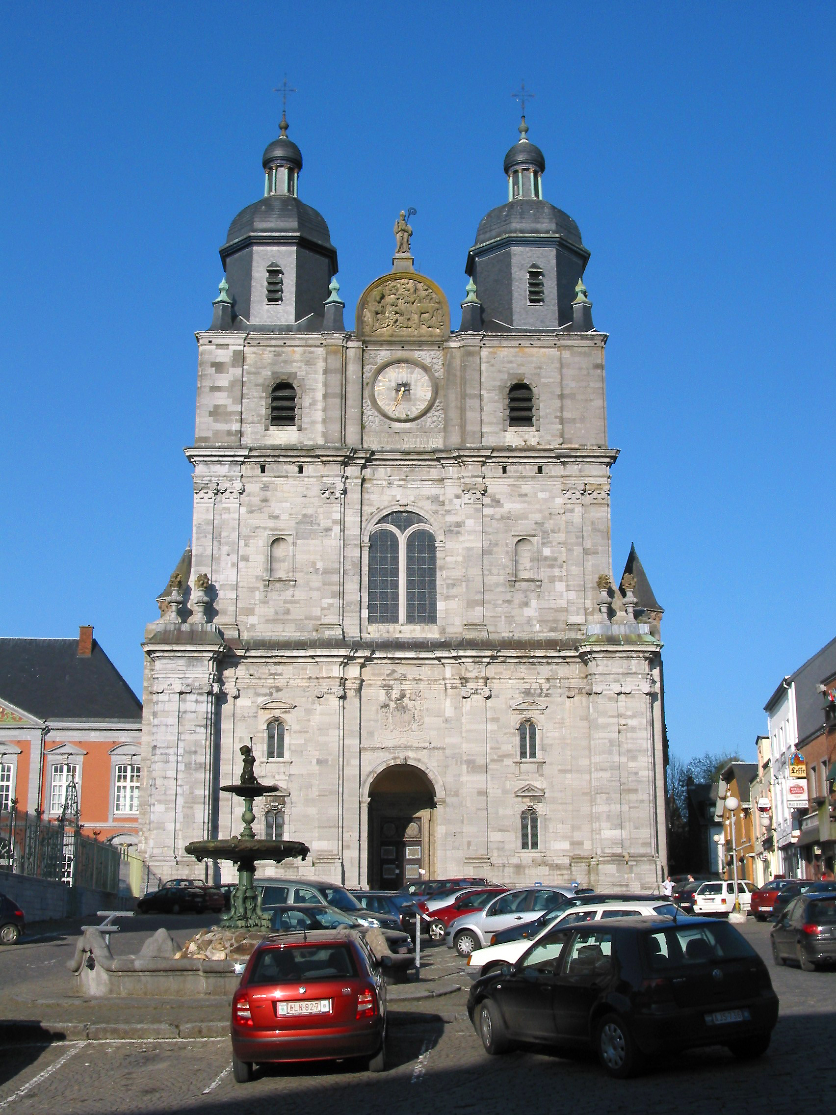 Saint-Hubert, Belgium, the Saints Peter and Paul basilica (16/18th centuries).